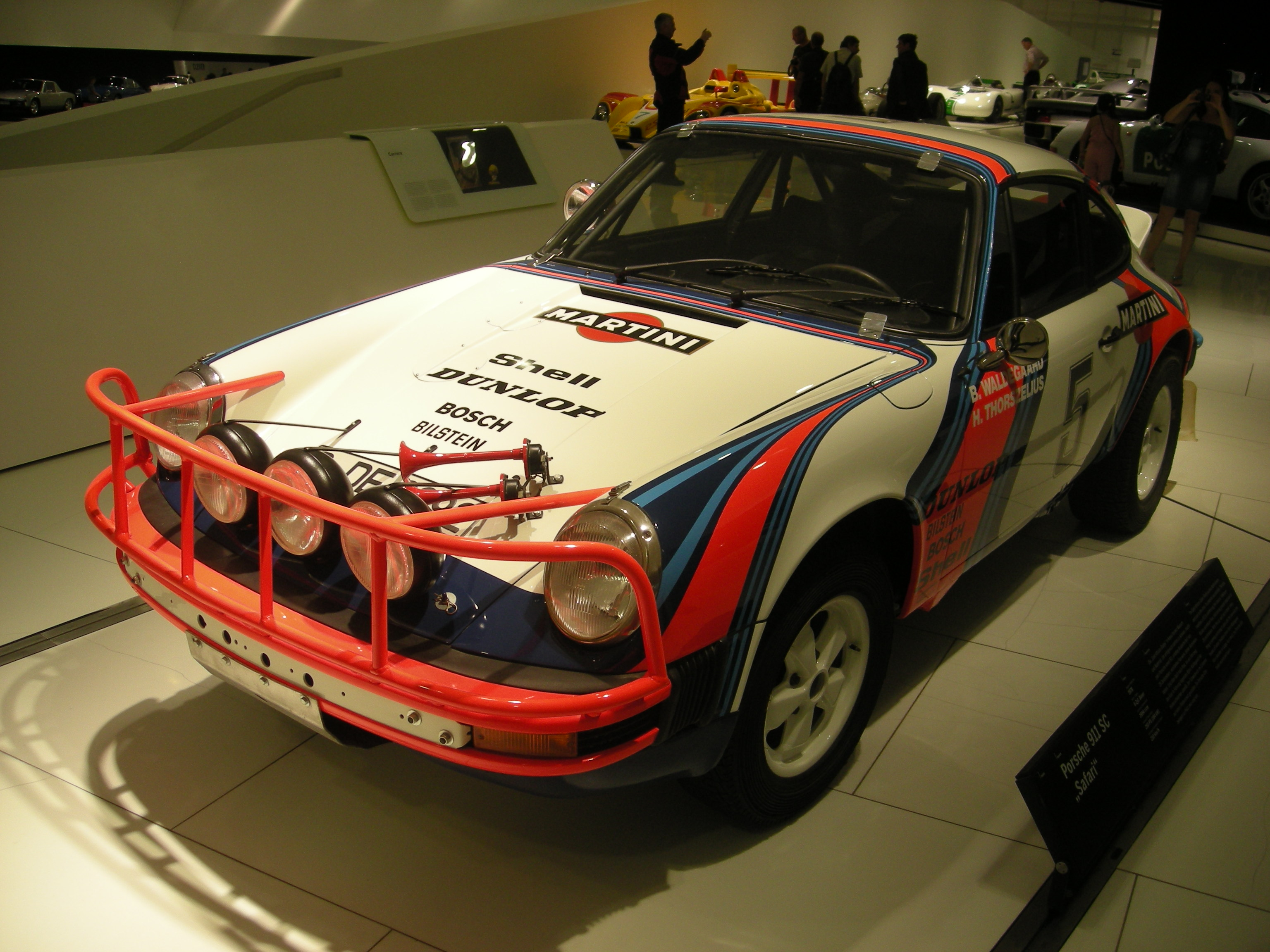 A 1978 Porsche 911 SC Safari inside the Porsche Museum in Stuttgart, Baden-Württemberg (Germany).